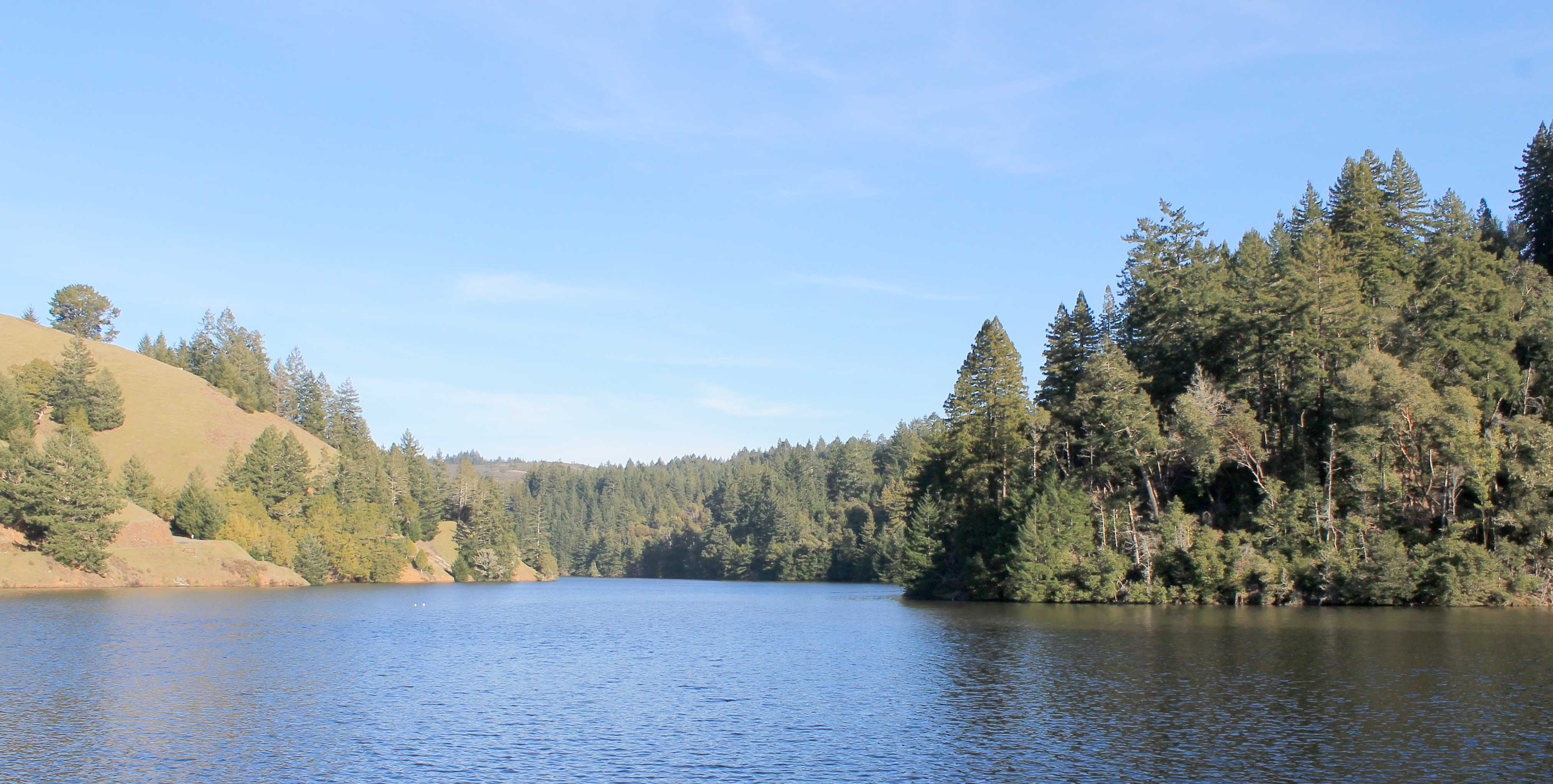 Alpine Lake in Marin County, California, USA viewed from Alpine Dam in January 2013